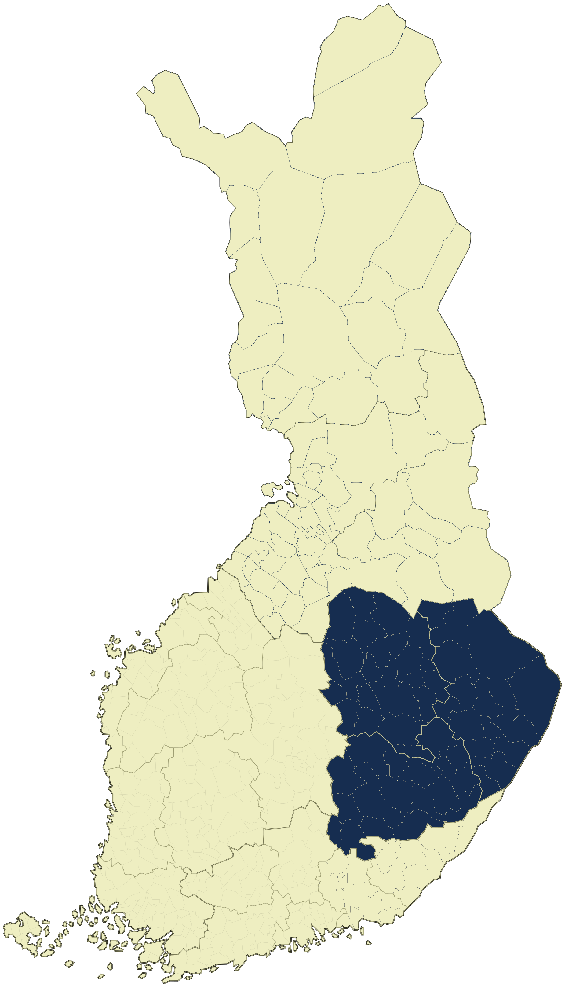 Map of Eastern Finland